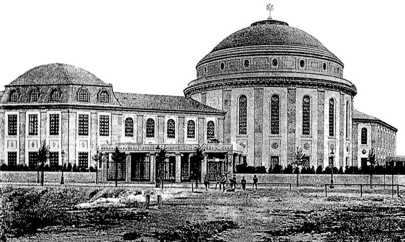 The Great synagogue of Mayence (Mainz) in Germany, built in 1912, destroyed by the nazis during Kristal Nacht in 1938.